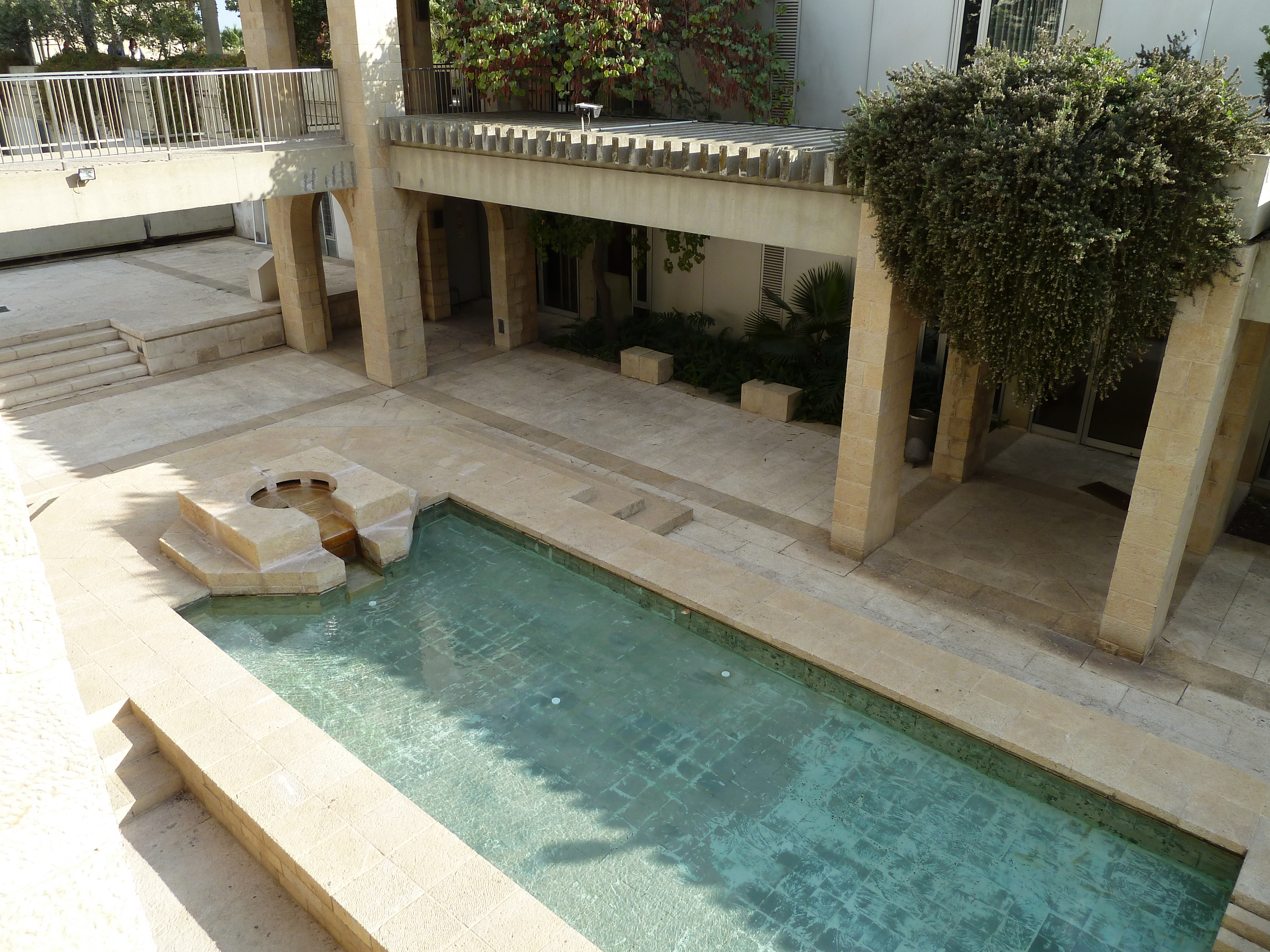 Hebrew Union College Campus, Jerusalem